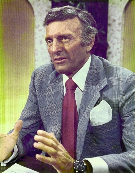 Publicity photo of my father, copyright owned by my father for his television program, and upon my father's death, all material related to his television program, (the Lou Gordon Program) including copyrights of ALL media (video, photographic, audio, recorded or otherwise) now belong to me; his son.